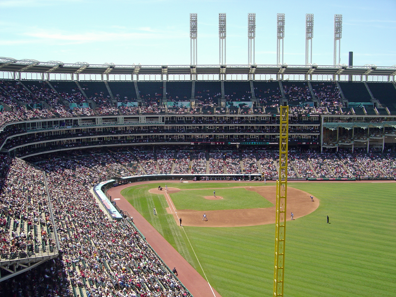 Jacobs Field in Cleveland, Ohio